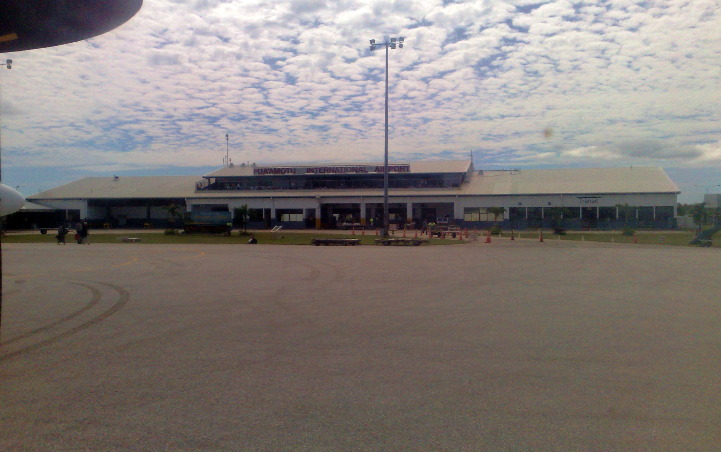 The terminal building at Fua'amotu International Airport (TBU/NFTF).